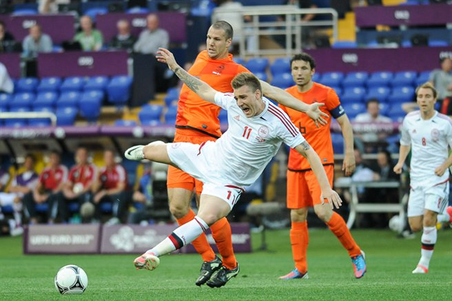 UEFA Euro 2012 match between Netherlands and Denmark that took place in Kharkiv. Final result was 0:1 (Krohn-Delhi)